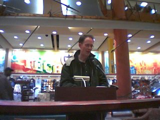 Picture of Cyberpunk author William Gibson at a reading session, when he was at Georgia Tech to promote his new book, Pattern Recognition.